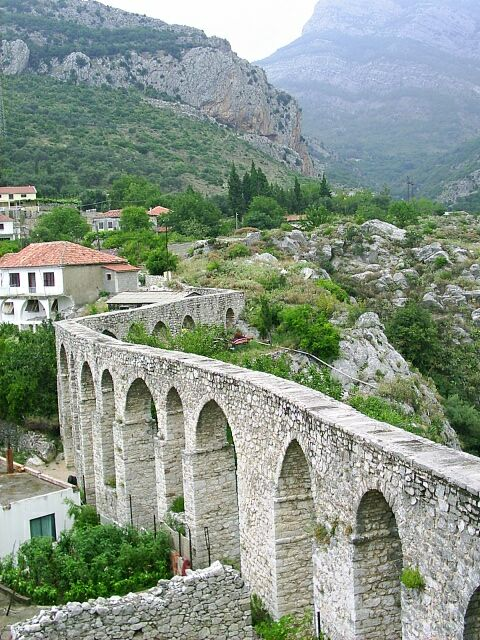 Town of Stari Bar, Montenegro